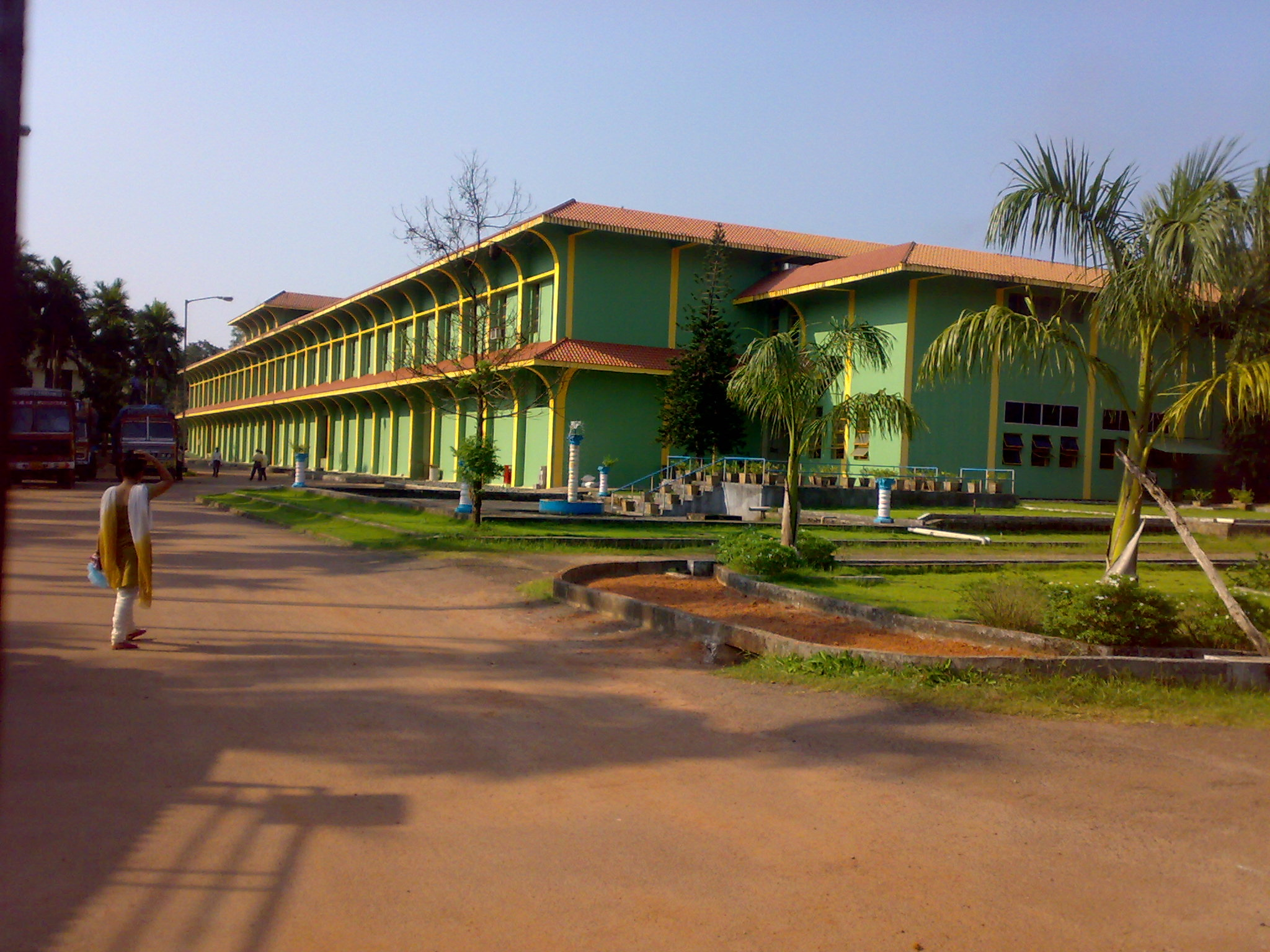 Camco Puttur